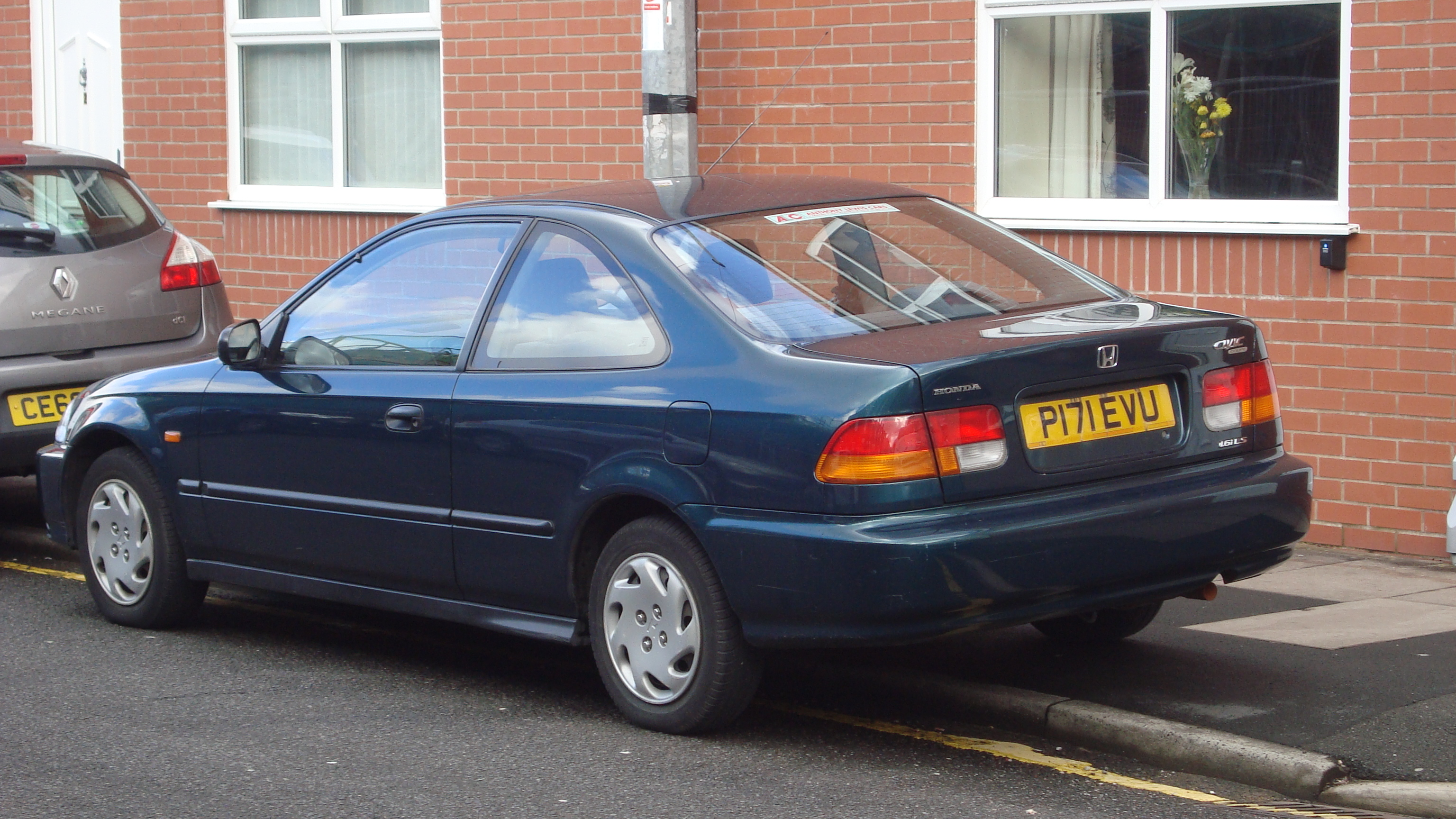 Really like the look of these